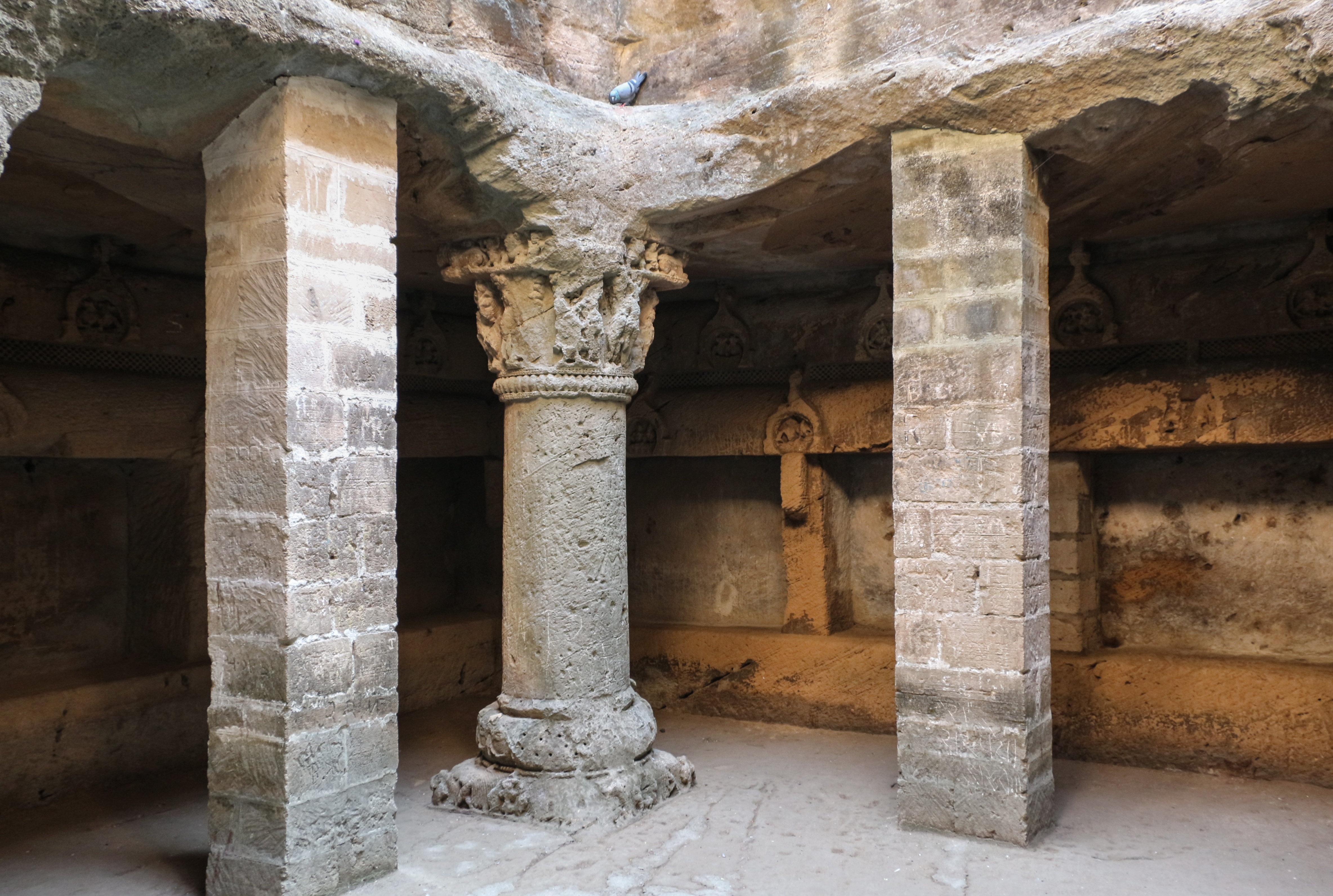 One of the three chambers in the Buddhist caves of the Uperkot Fort, Junagadh, India